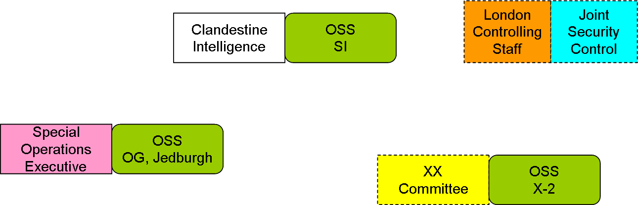 US and UK WWII intelligence, special ops, deception, counterintelligence